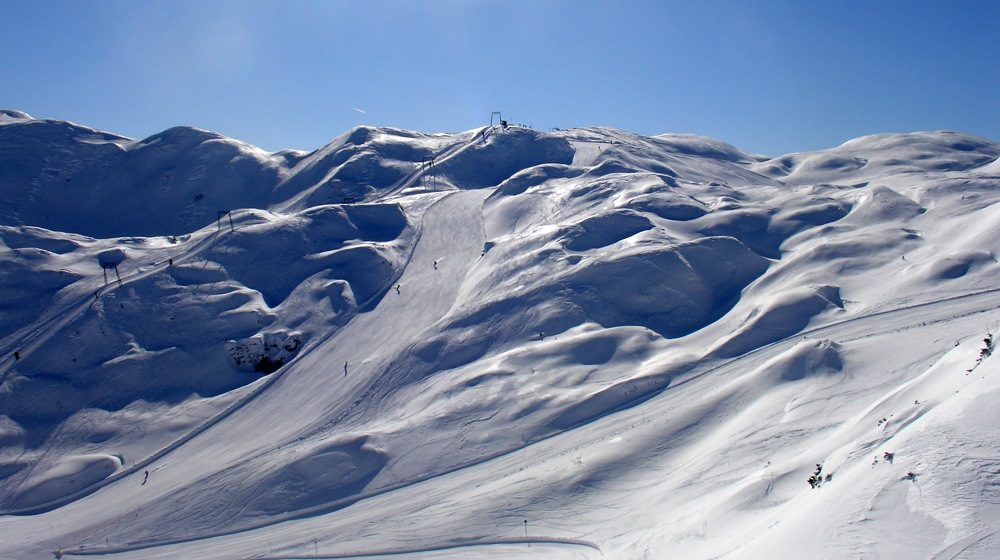 Slovenian current highest ski resort.